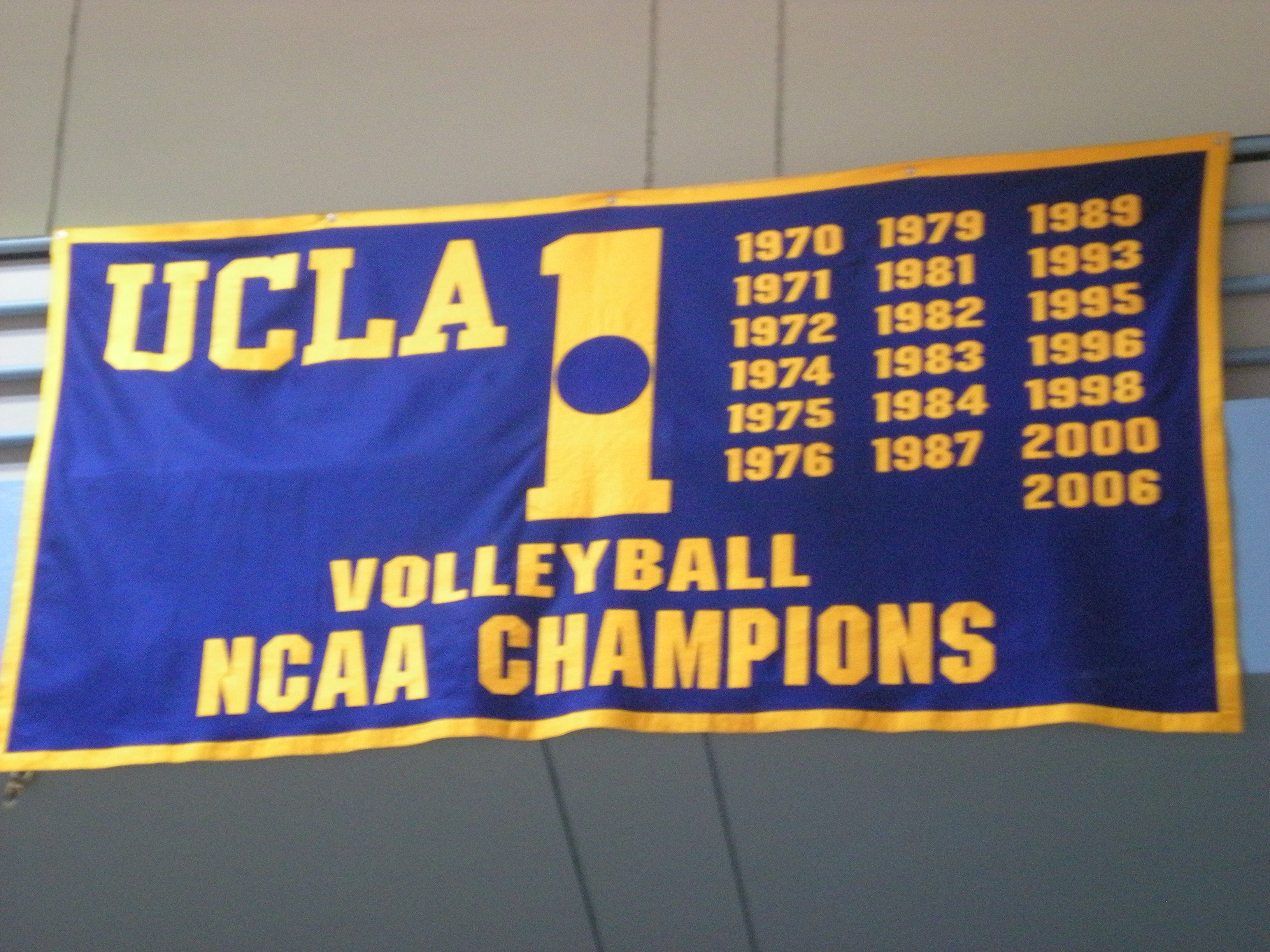 UCLA Men's Volleyball has won 19 National Championships, the last of which was in 2006.